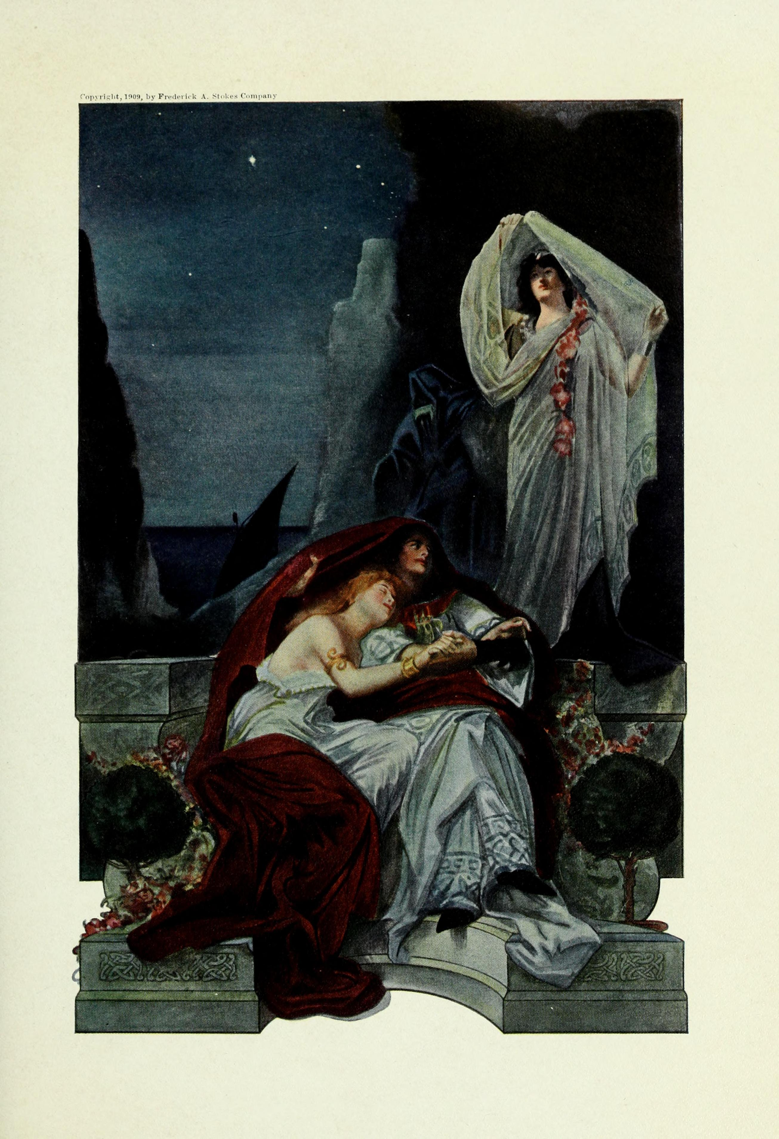 Title: Wagner's Tristan and Isolde Year: 1909 (1900s) Authors: Wagner, Richard, 1813-1883 Le Gallienne, Richard, 1866-1947 Ziegler, Edward, 1870- Williams, George Alfred, 1875- , ill Subjects: Wagner, Richard, 1813-1883 Operas Publisher: New York : F.A. Stokes, 1909 Text Appearing Before Image: O fall, sweet night,L; both. Text Appearing After Image: scene ii) TRISTAN AND ISOLDE (act h The stars of our love, Spun, like the planets, round To thy enchantment, — Night, thy soft eyes! Ah! thy heart to my heart, And my mouth to thy mouth! Only one breath — My eyes are gone from me, Blinded with loving thee, And the world fades, With all its false radiance; Unafraid of its lies— For thou art my world, And thy world am I; Weaving the weft of our delight, Dreaming our holy dreams; Our pure desire, From all illusion free, The sleep that wakes not; Fearing no more. (Tristan and Isolde sink, with heads side by side,in rapture, upon the bank of flowers) BRANGANA (invisible, singing, as from the watch-tower) Lonely I watch, agtii) TRISTAN AND ISOLDE (scene ii All through the night;You that are lostIn the dream of your love, —Dream, love, and laughter,—Believe you the lonely one,Sorrow is coming —Beware! O beware!The night is soon passing. ISOLDE Listen, beloved! TRISTAN Wilt thou not let me die! ISOLDE (slowly raising herself) 0 je